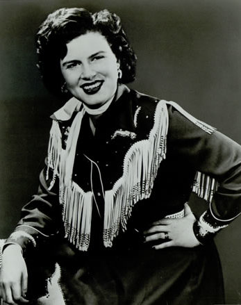 Publicity photo of Patsy Cline by MCA records, distributed around 1973-1975. The picture was originally taken for Decca records.